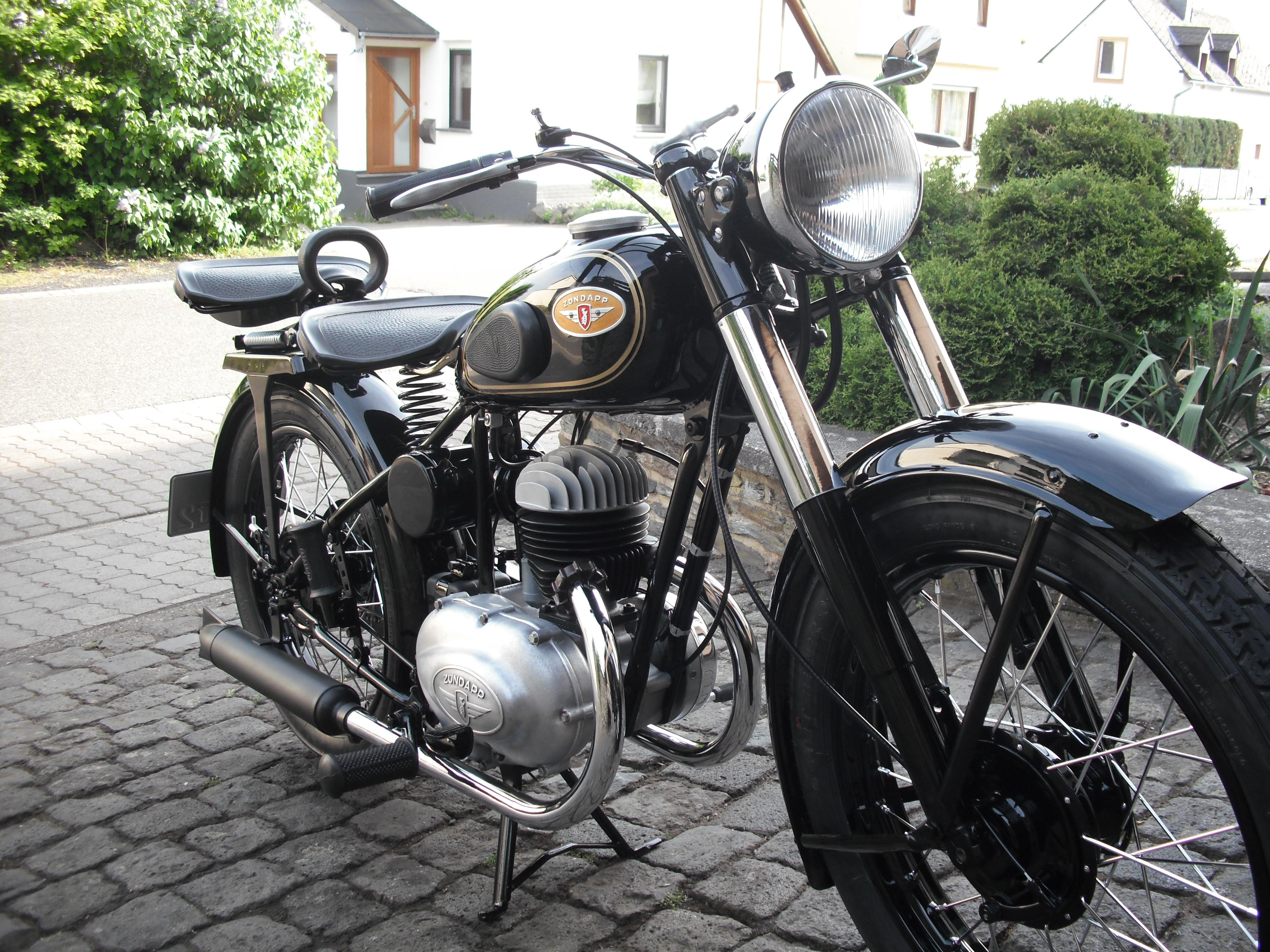 Zündapp